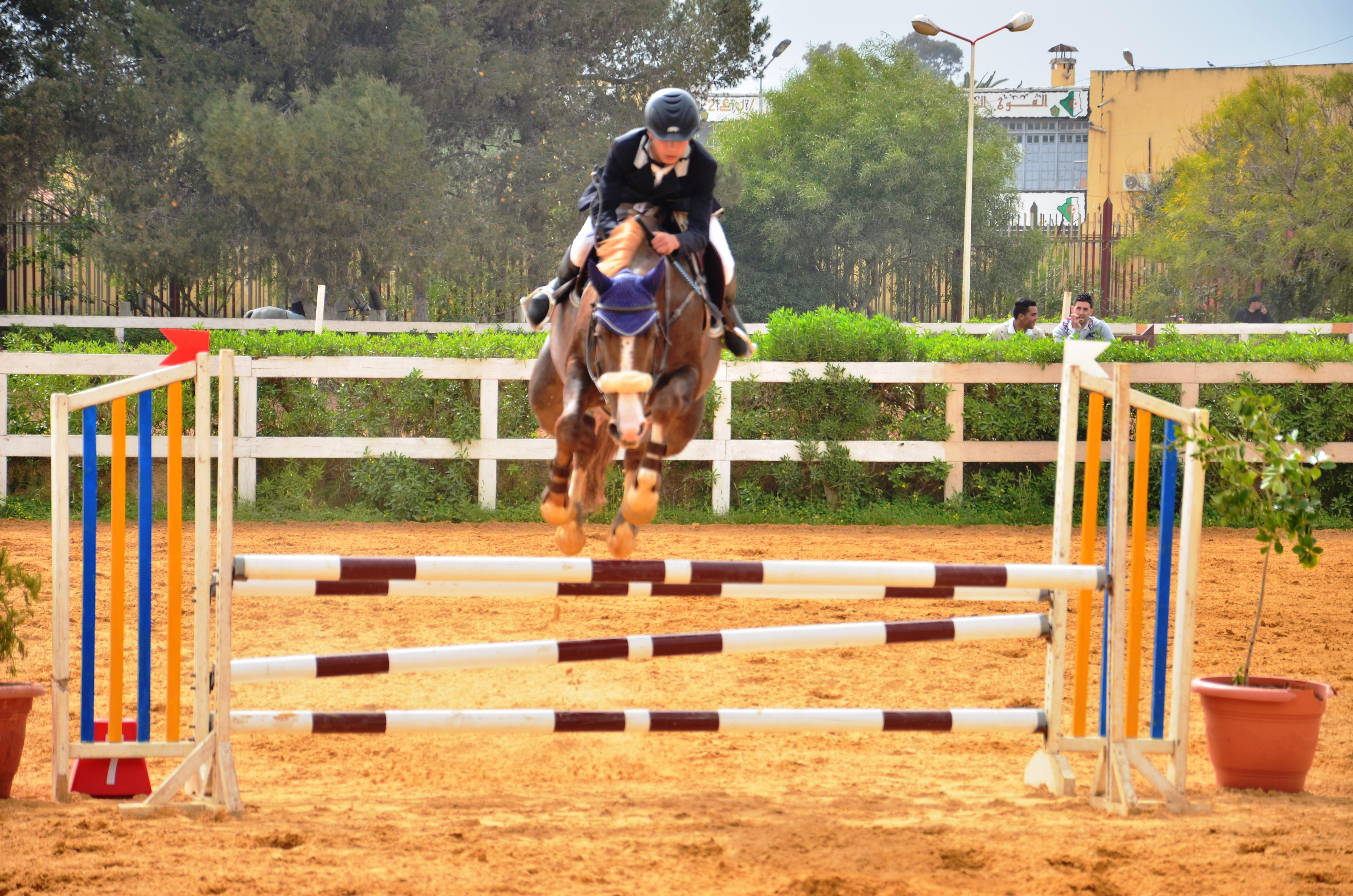 This is an image with the theme "Play" from: Algeria